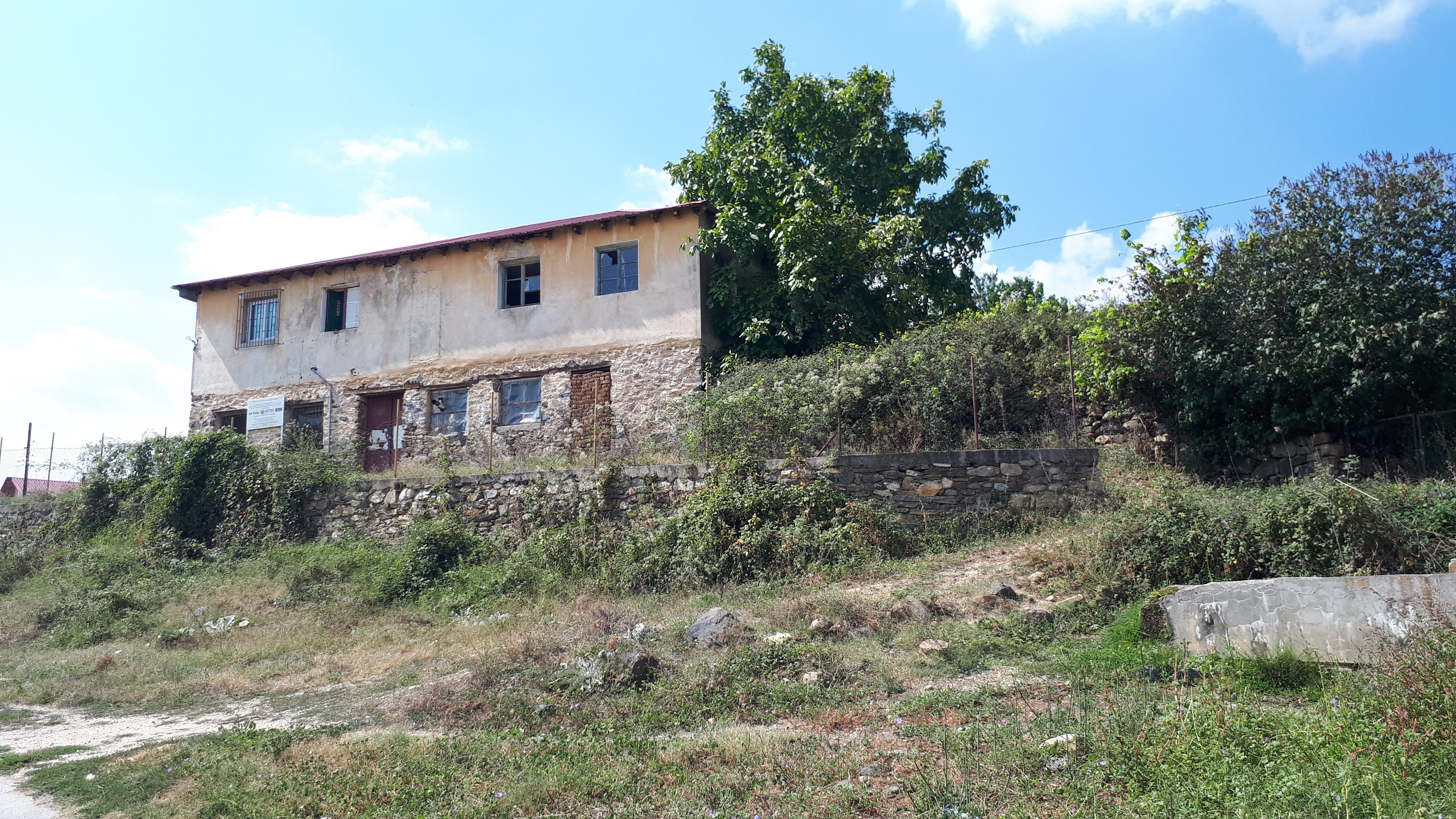 Old house in the village Oleveni